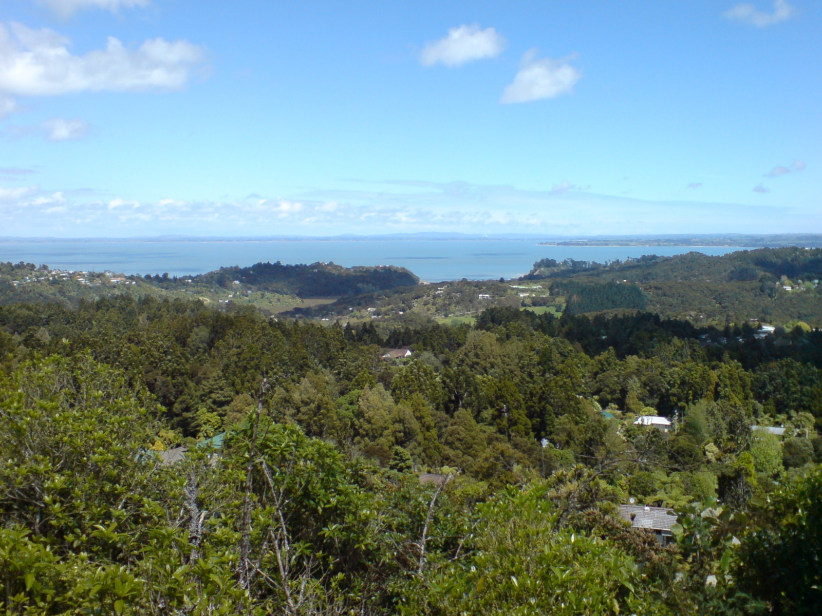 The Manukau Harbour from Scenic Drive, west of Titirangi, Waitakere City, New Zealand, looking roughly south-west.